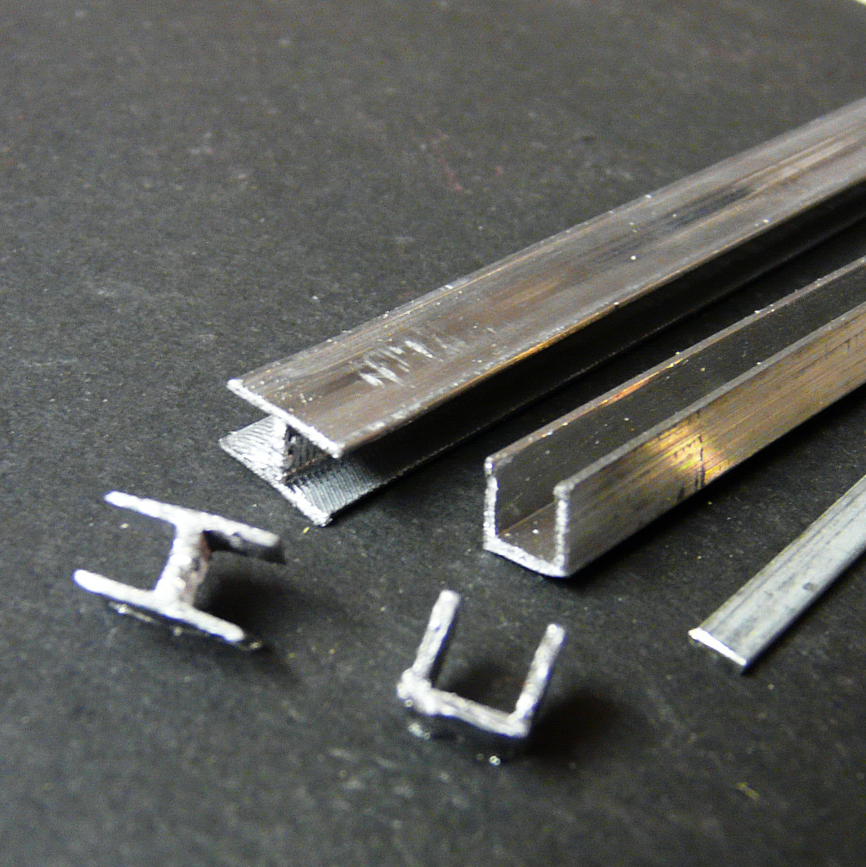 lead